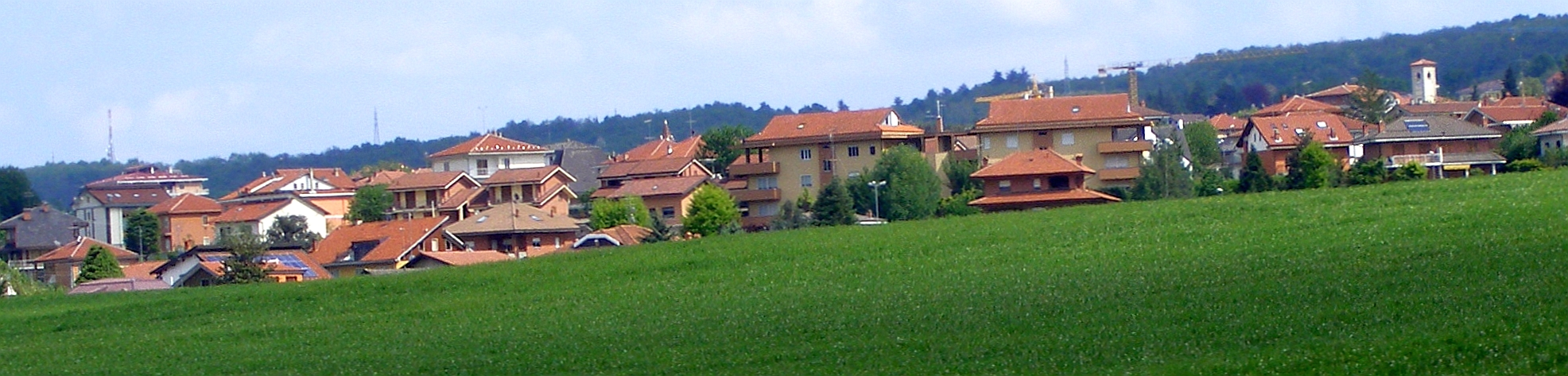 Rosta (TO, Italy): panorama